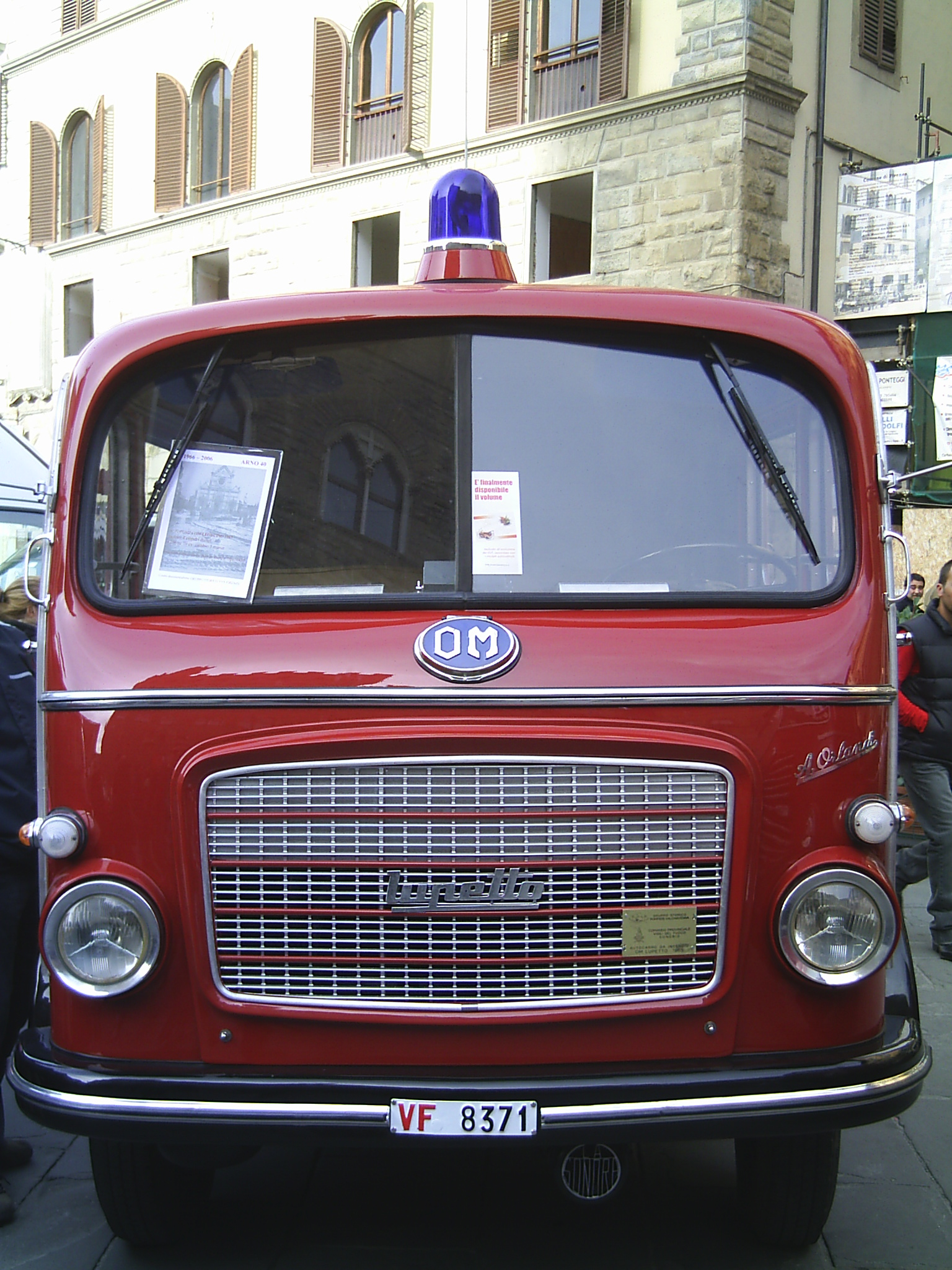 Historical fire engine in Italy - OM Lupetto